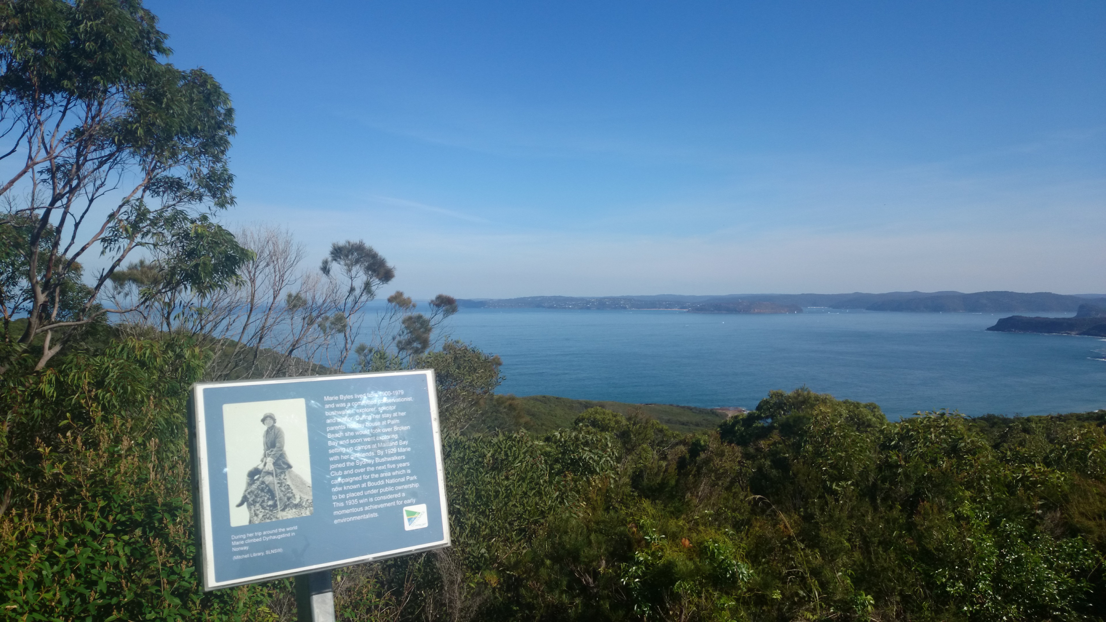 Maria Byles Lookout, Killcare heights